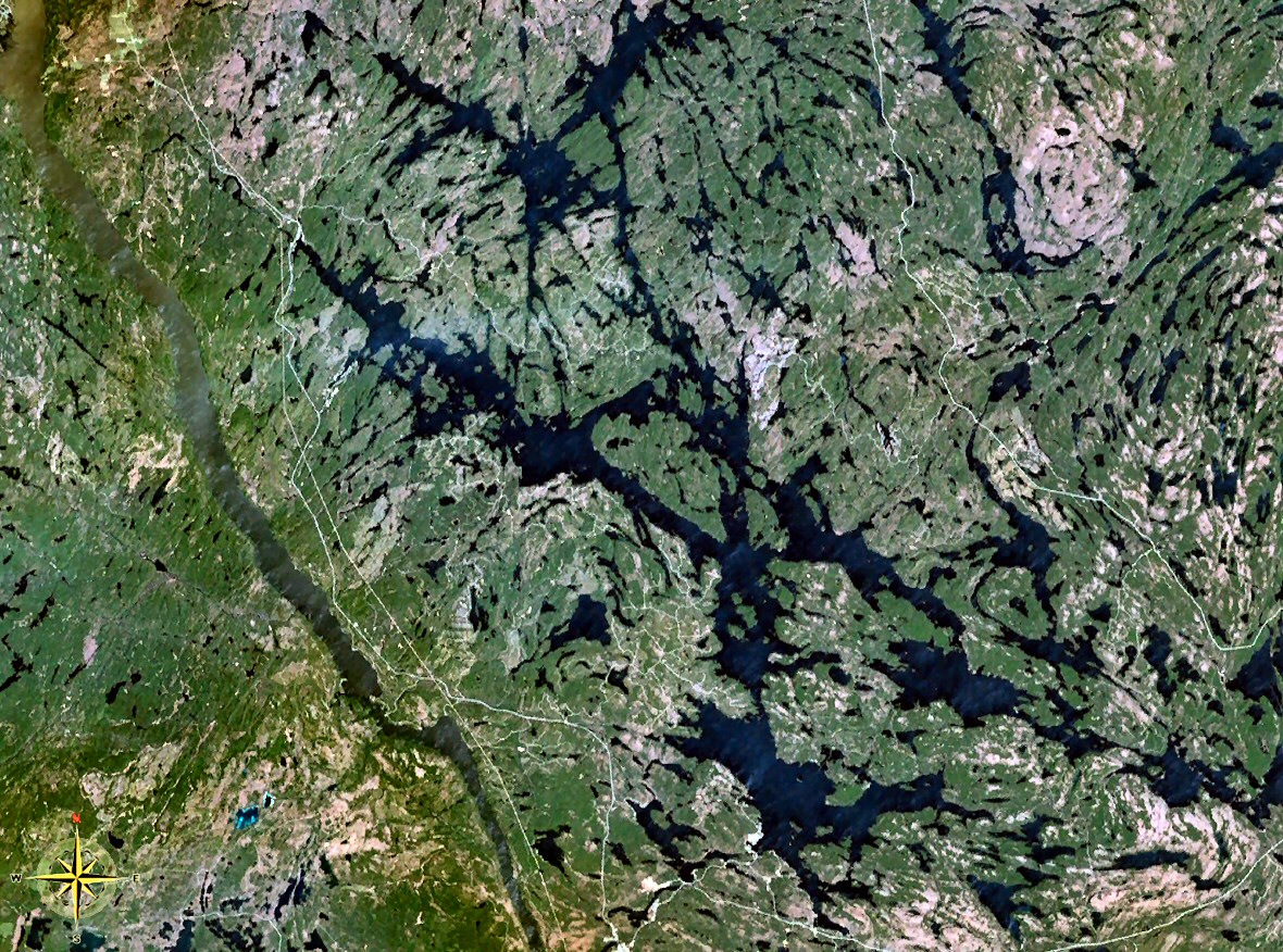 Lake Kipawa in western Quebec, Canada. The Ottawa River is visible on the left side.